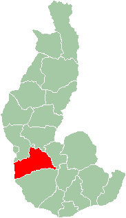 Location map of Betioky region in Toliara province.